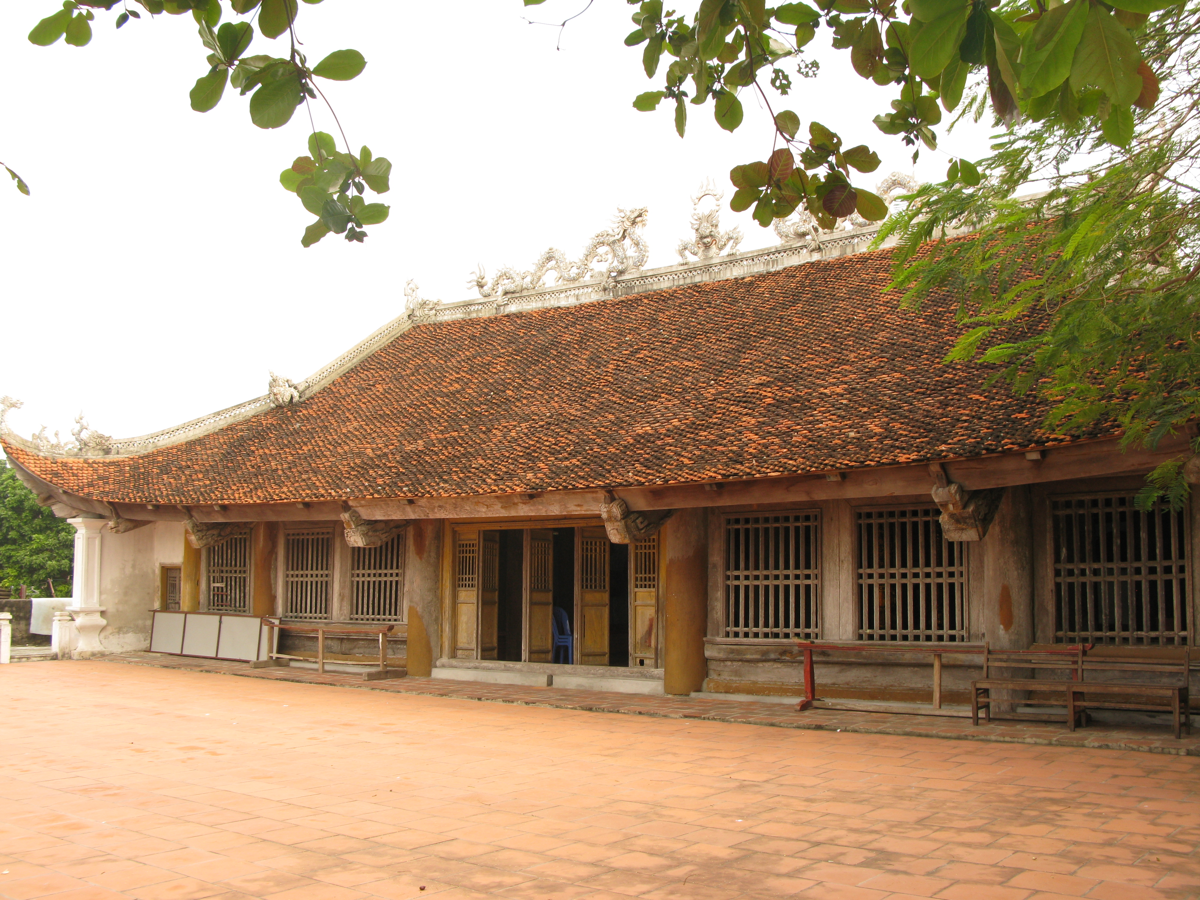 Quan Lạn communal house, Quan Lạn Island, Vân Đồn, Việt Nam